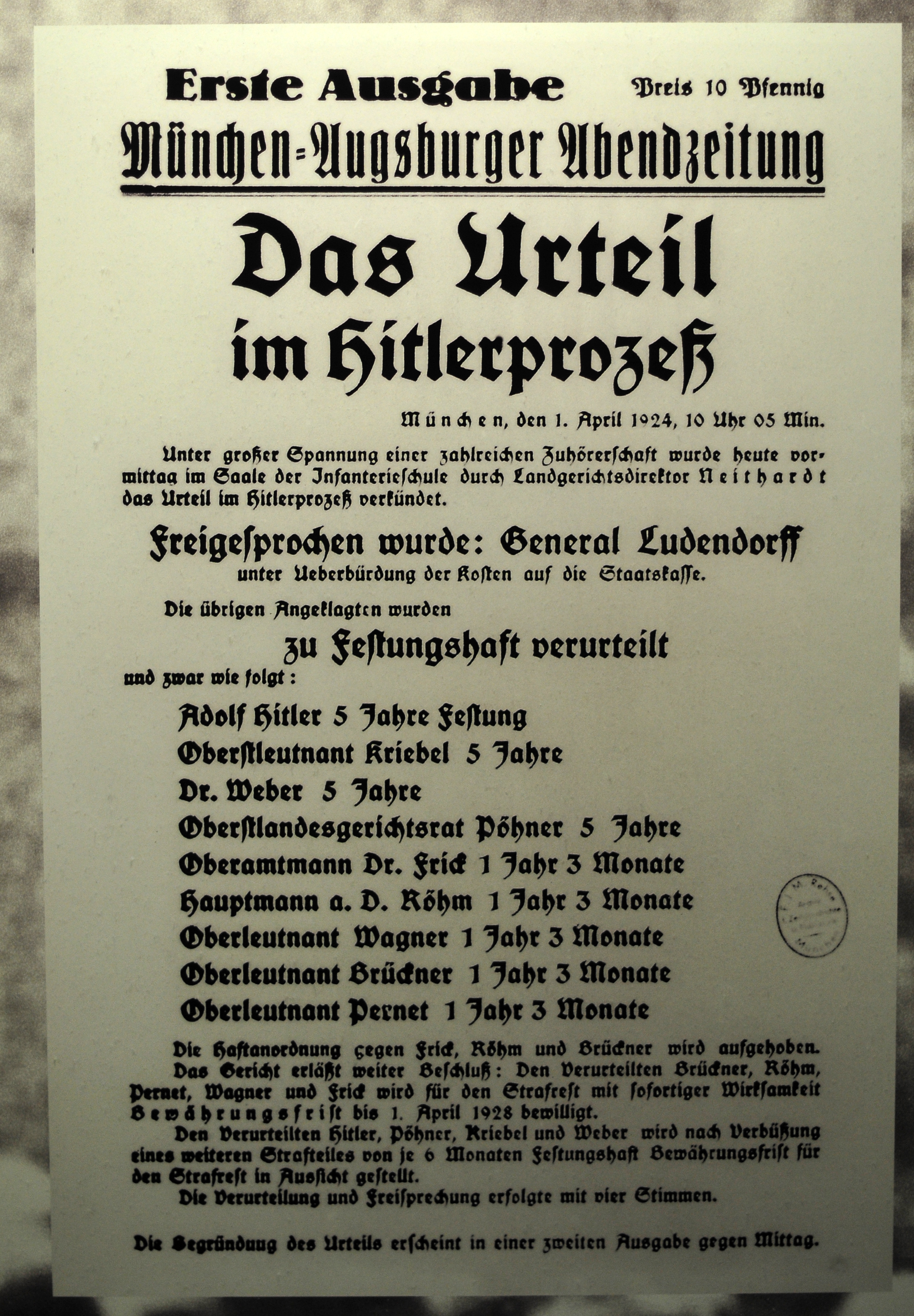 Kongreßhalle Nuremberg at the Reichsparteitagsgelände; Documents The making of this work was supported by Wikimedia Austria. For other files made with the support of Wikimedia Austria, please see the category Supported by Wikimedia Österreich. This work is ineligible for copyright and therefore in the public domain because it consists entirely of information that is common property and contains no original authorship.